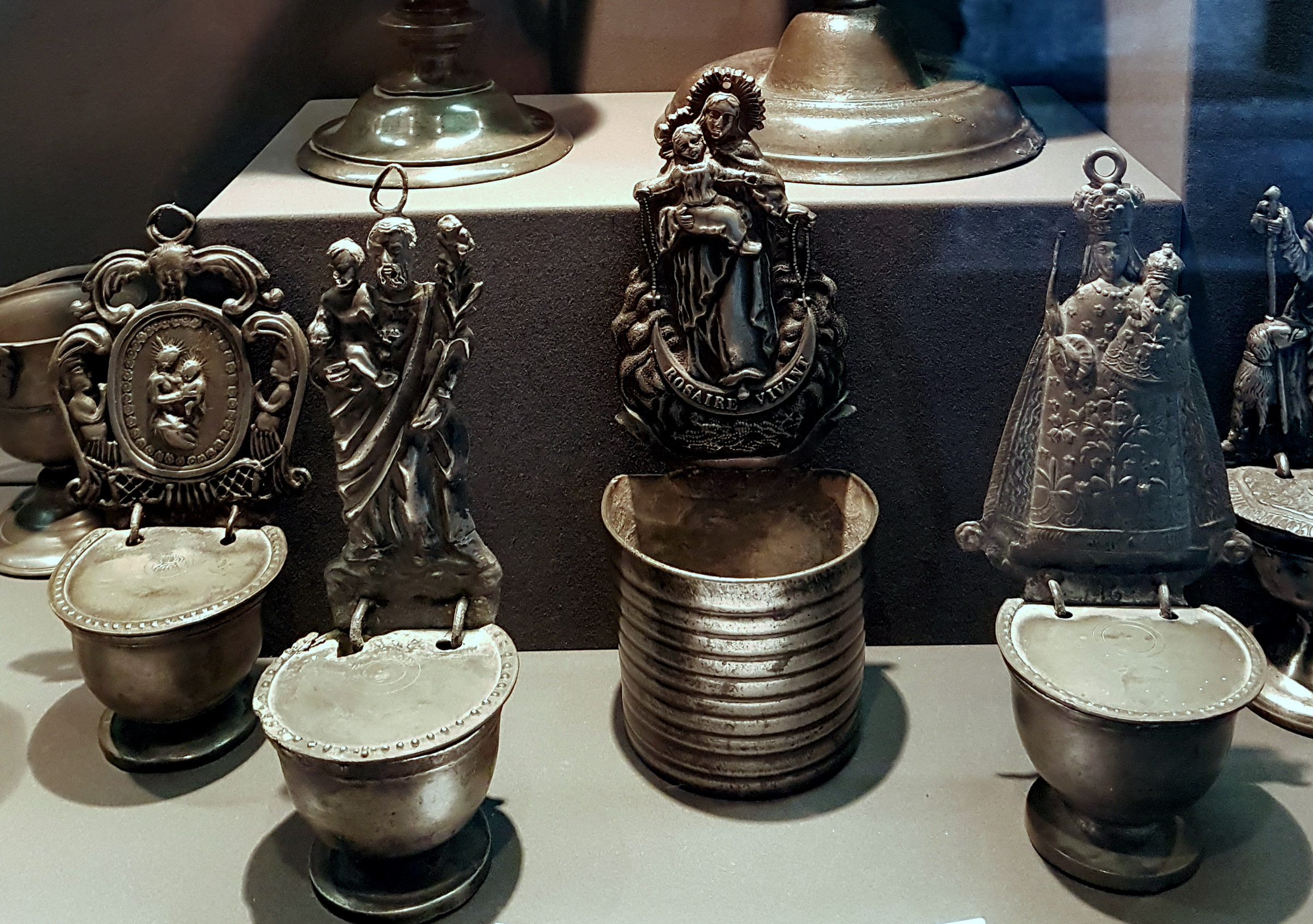 Tin collection in the east corridor of the cloisters of the Basilica of Saint Servatius in Maastricht, the Netherlands. The collection of liturgical and devotional tin objects was put together by the collector Peter Aussems and given to the Treasury of Saint Servatius in 2015.